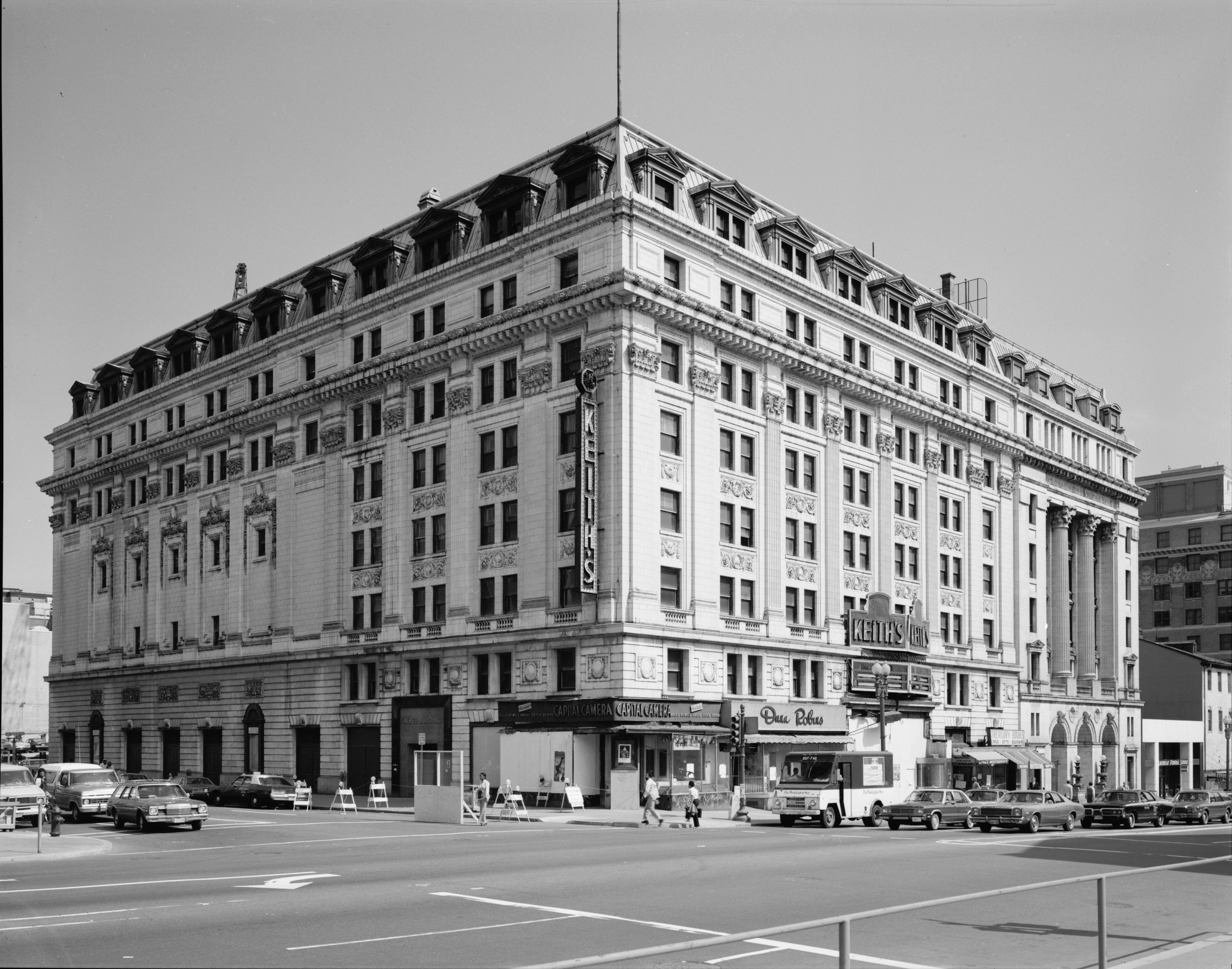 Keith-Albee Building, Fifteenth & G Streets Northwest, Washington, District of Columbia, DC